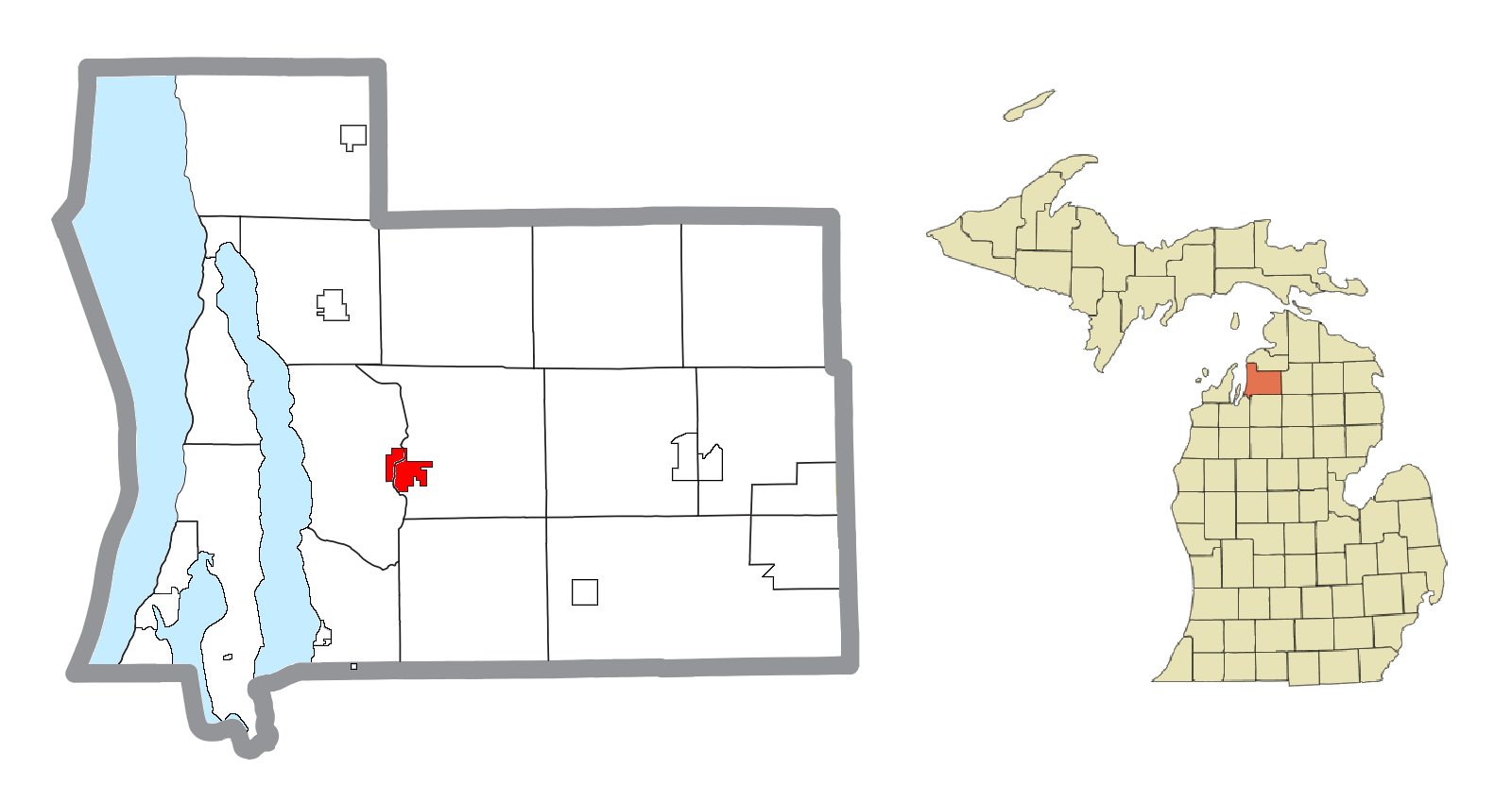 Bellaire, MI